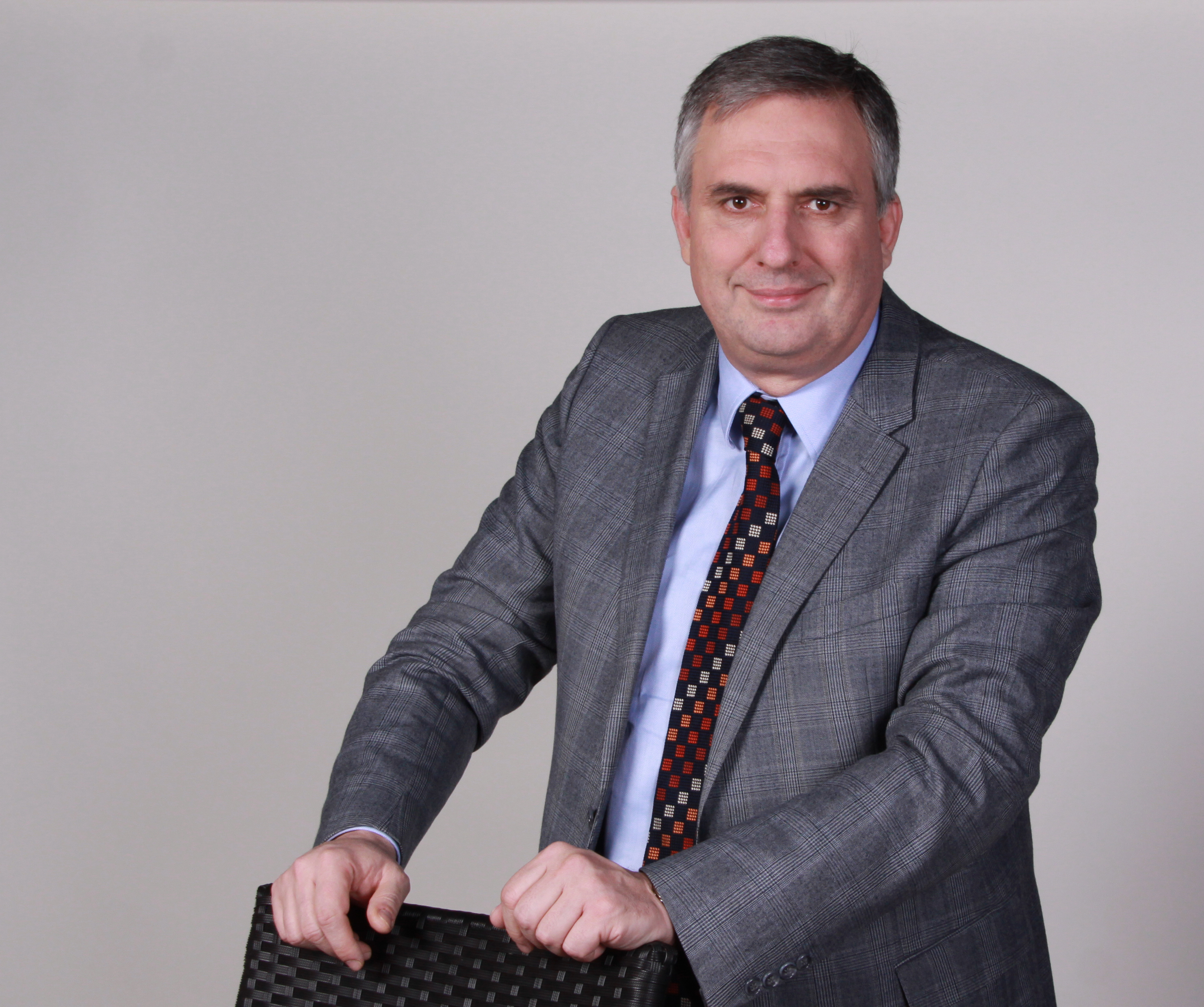 Ivailo Kalfin, Member of the European Parliament